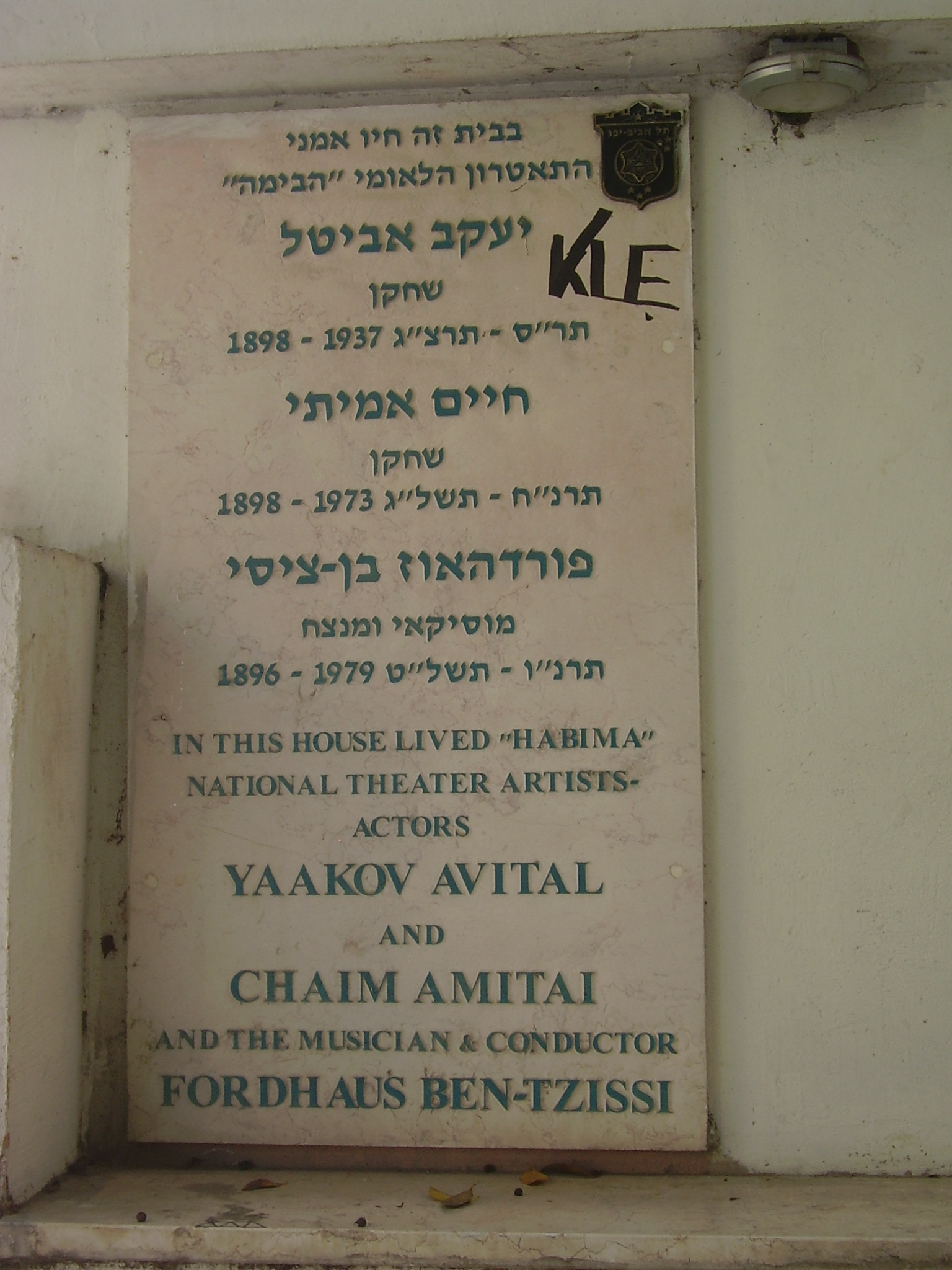 Memorial plaque on the house of the musician Fordhaus Ben-Tzissi and the actors Yaacov Avital and Chaim Amitai in Tel Aviv לוחית זיכרון על ביתם של המוזיקאי פורדהאוס בן ציסי ושחקני "הבימה" יעקב אביטל וחיים אמיתי ברח' פרוג 25 בתל אביב